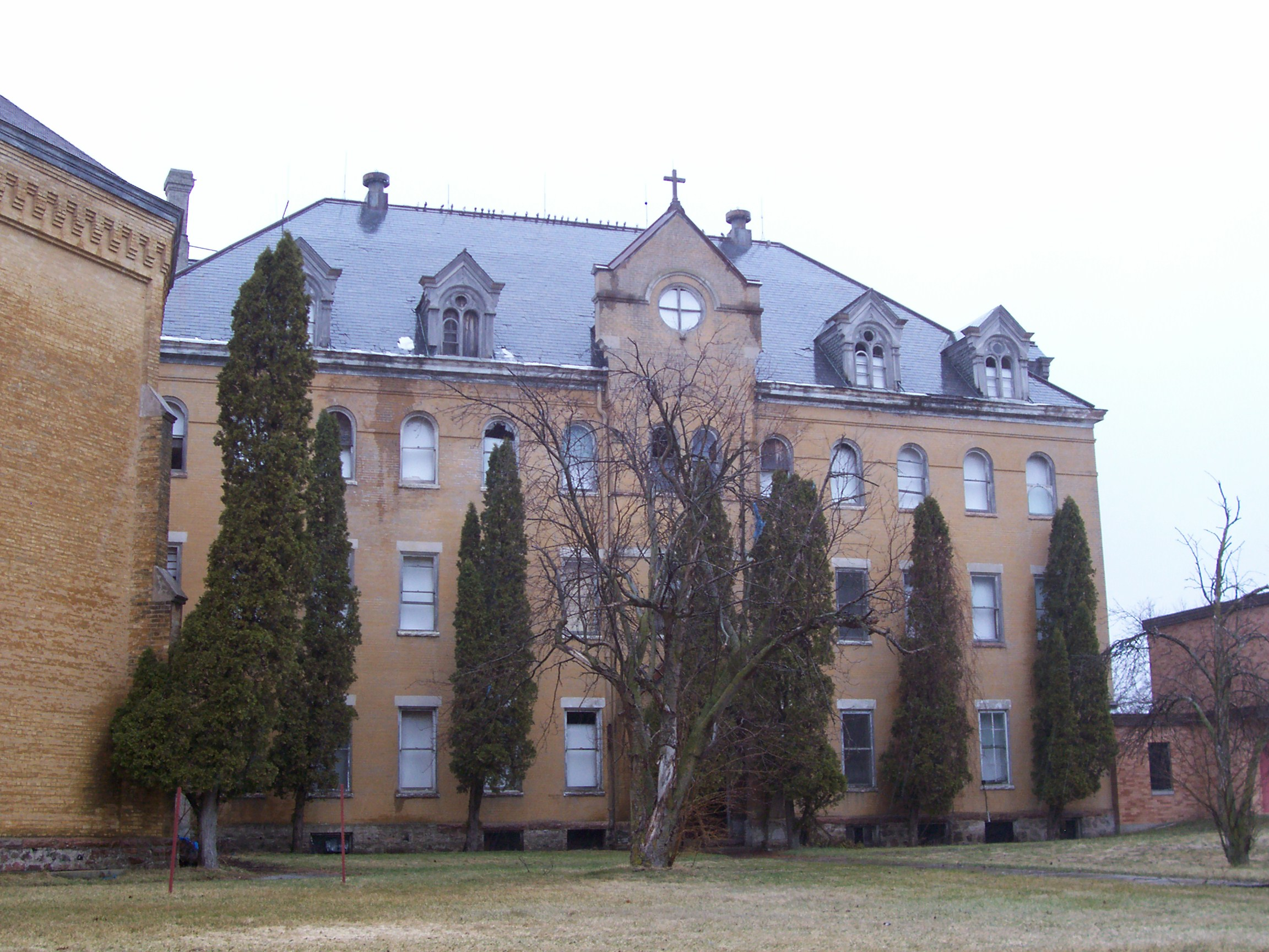 The dormatory for John F. Kennedy Preparatory High School in St. Nazianz, Wisconsin(USA)